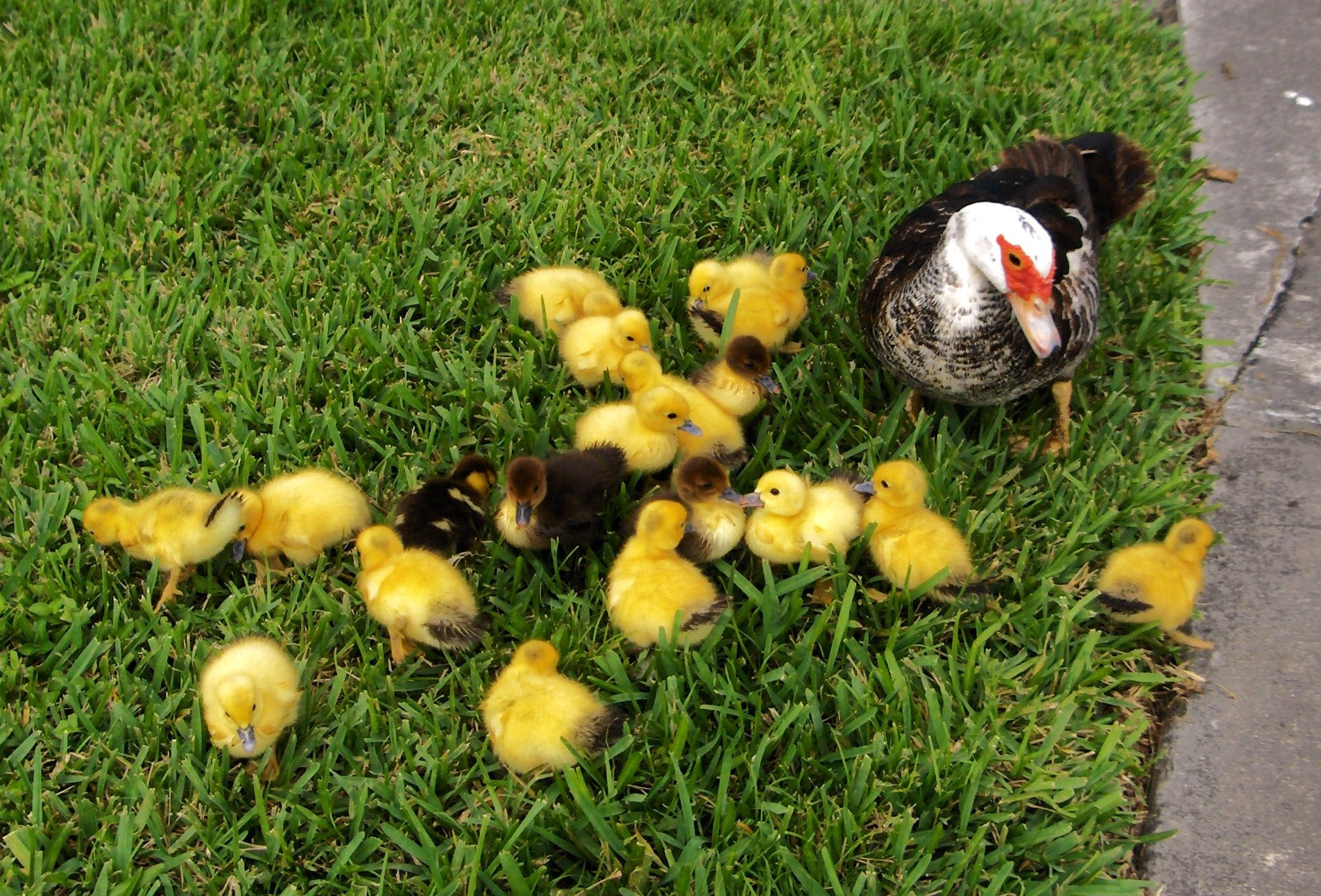 19 petits canetons a s'occuper, quelle corvée! A clutch of 19 ducklings a 24 hours a day hard job!